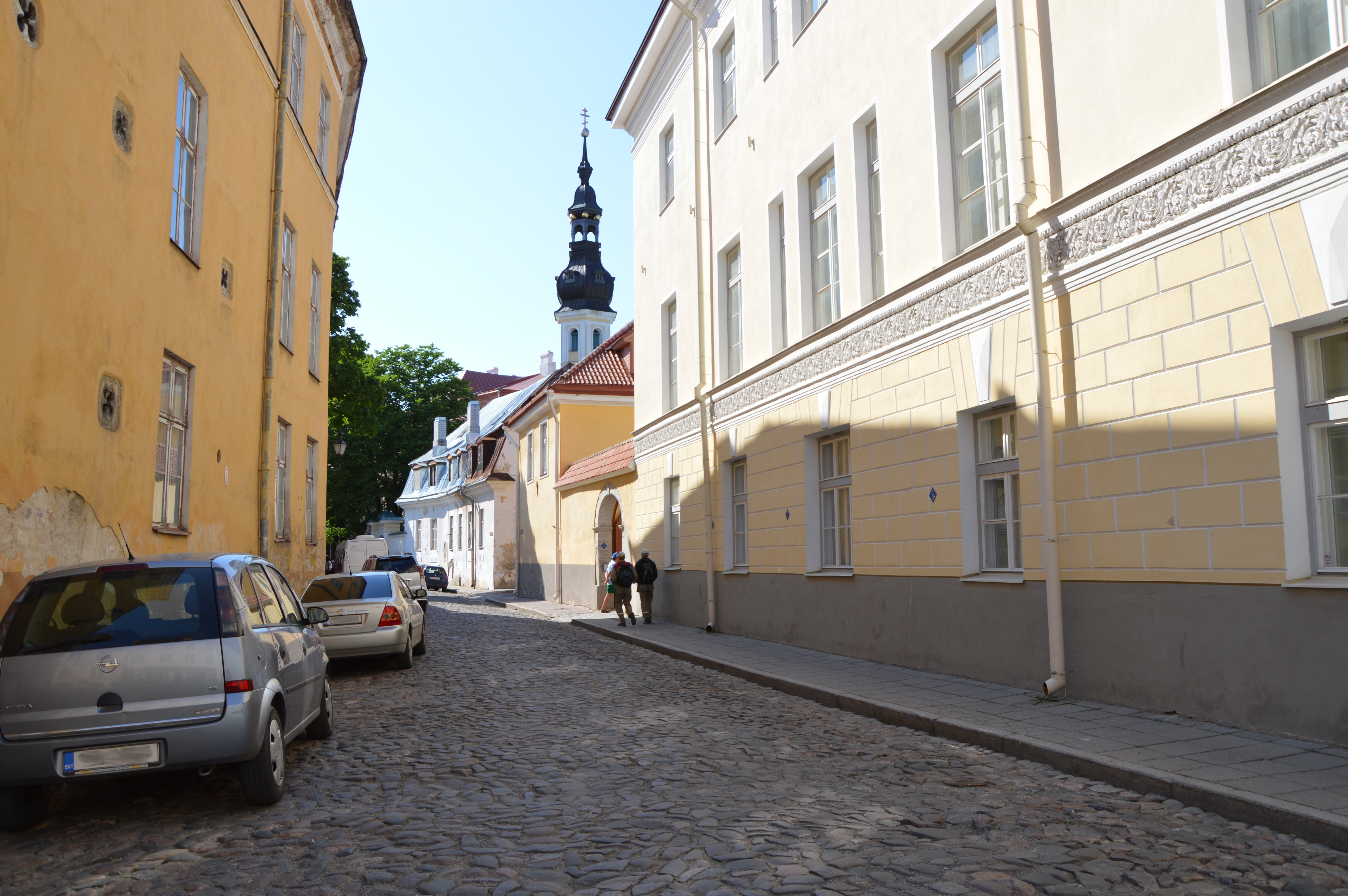 Tallinn old town